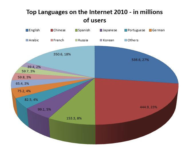 Top Languages on Internet Source: Internet World Stats